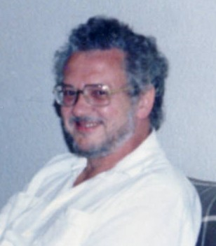 Dr.phil. Bengt Holbek